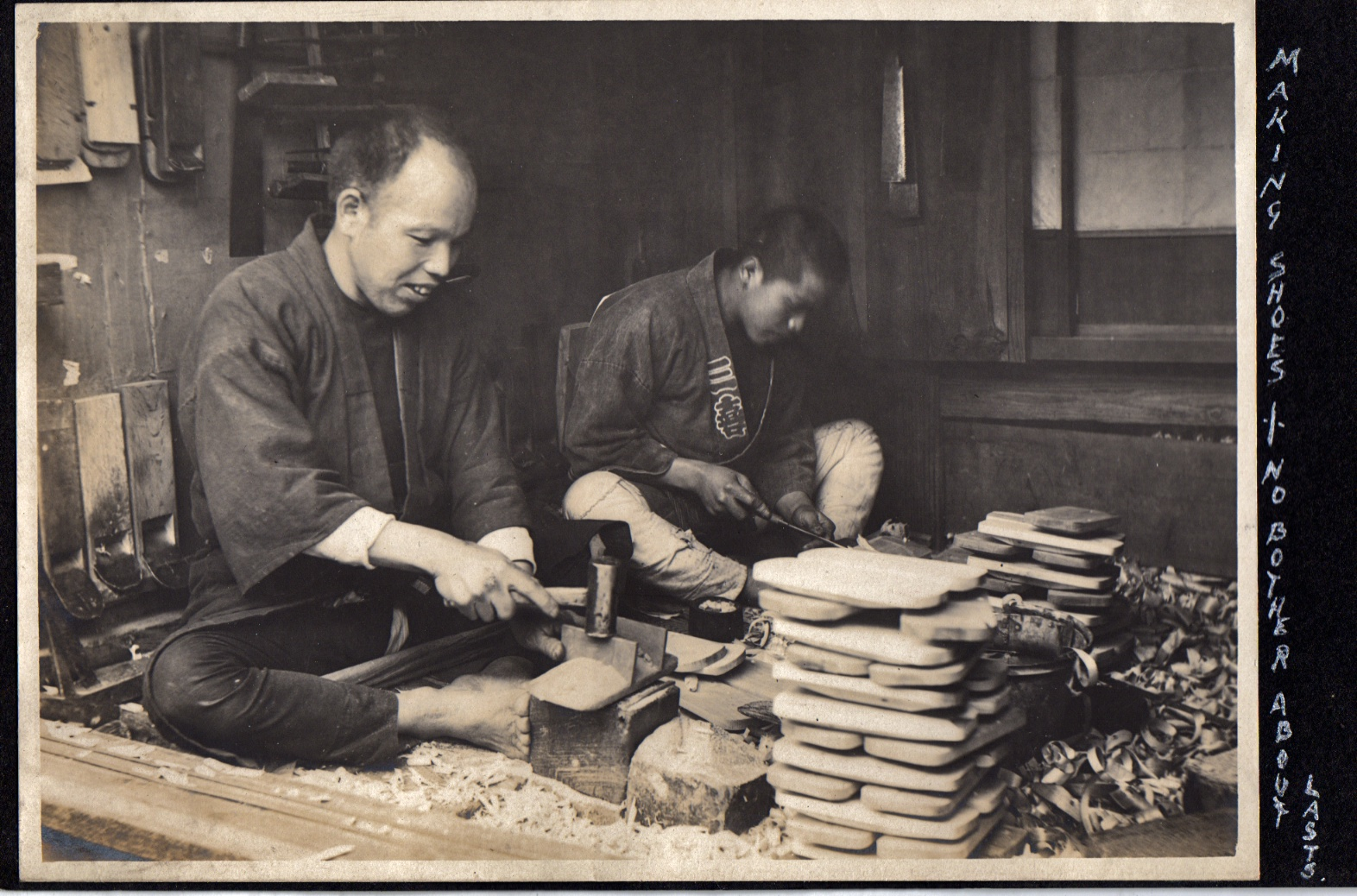 Geta makers working on geta sandals.